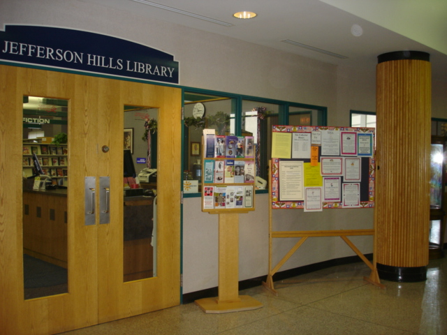 Photo of the outside of Jefferson hills Library